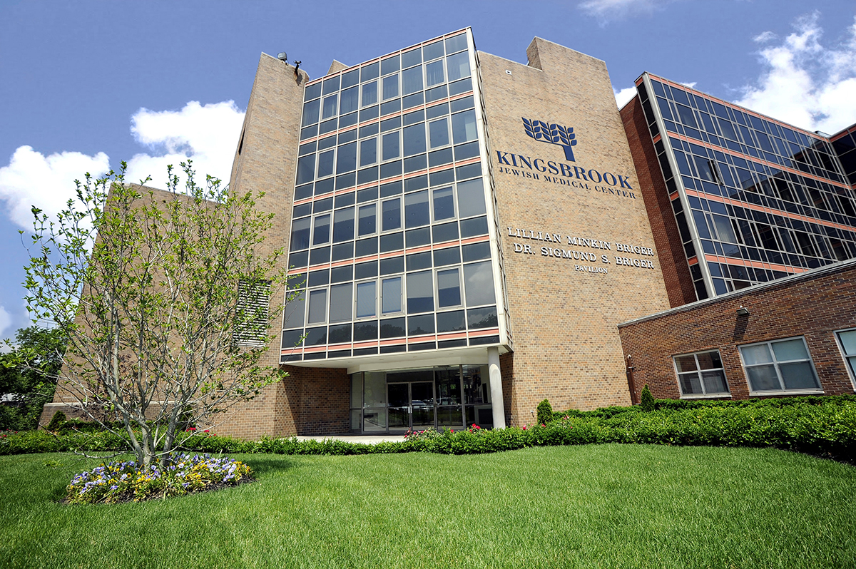 Main Hospital Entrance